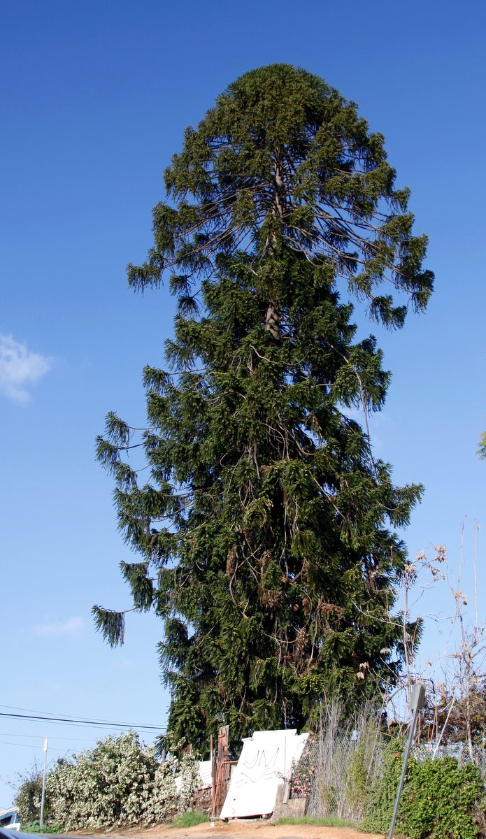 Bunya Araucaria bidwillii, cultivated, Los Angeles, California